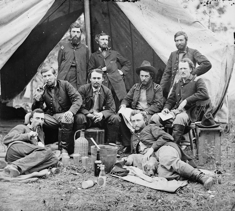 The staff of Gen. Fitz-John Porter; Lts. William G. Jones and George A. Custer reclining. The Peninsula, Va., 1862